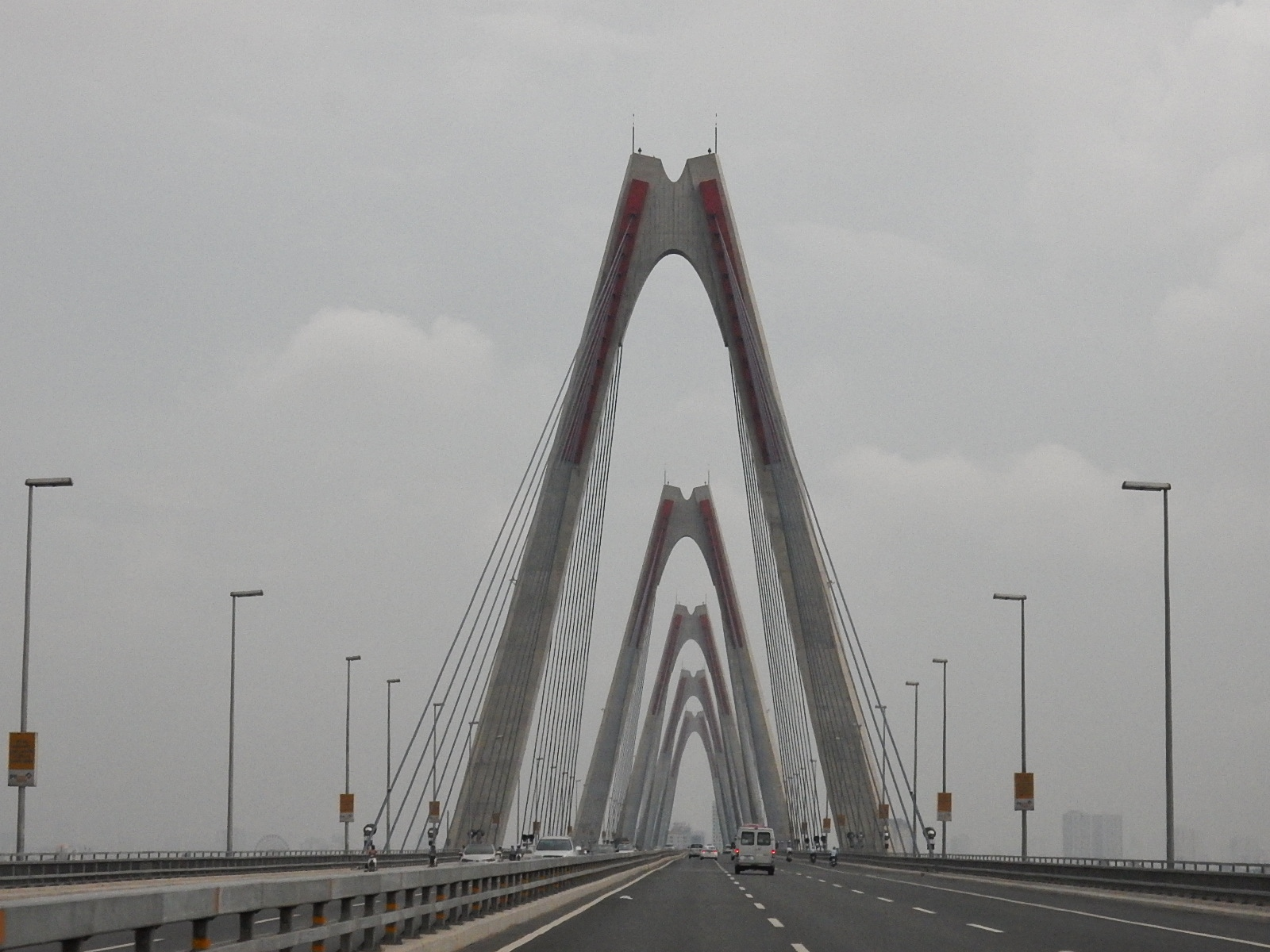 Bridges in Hanoi